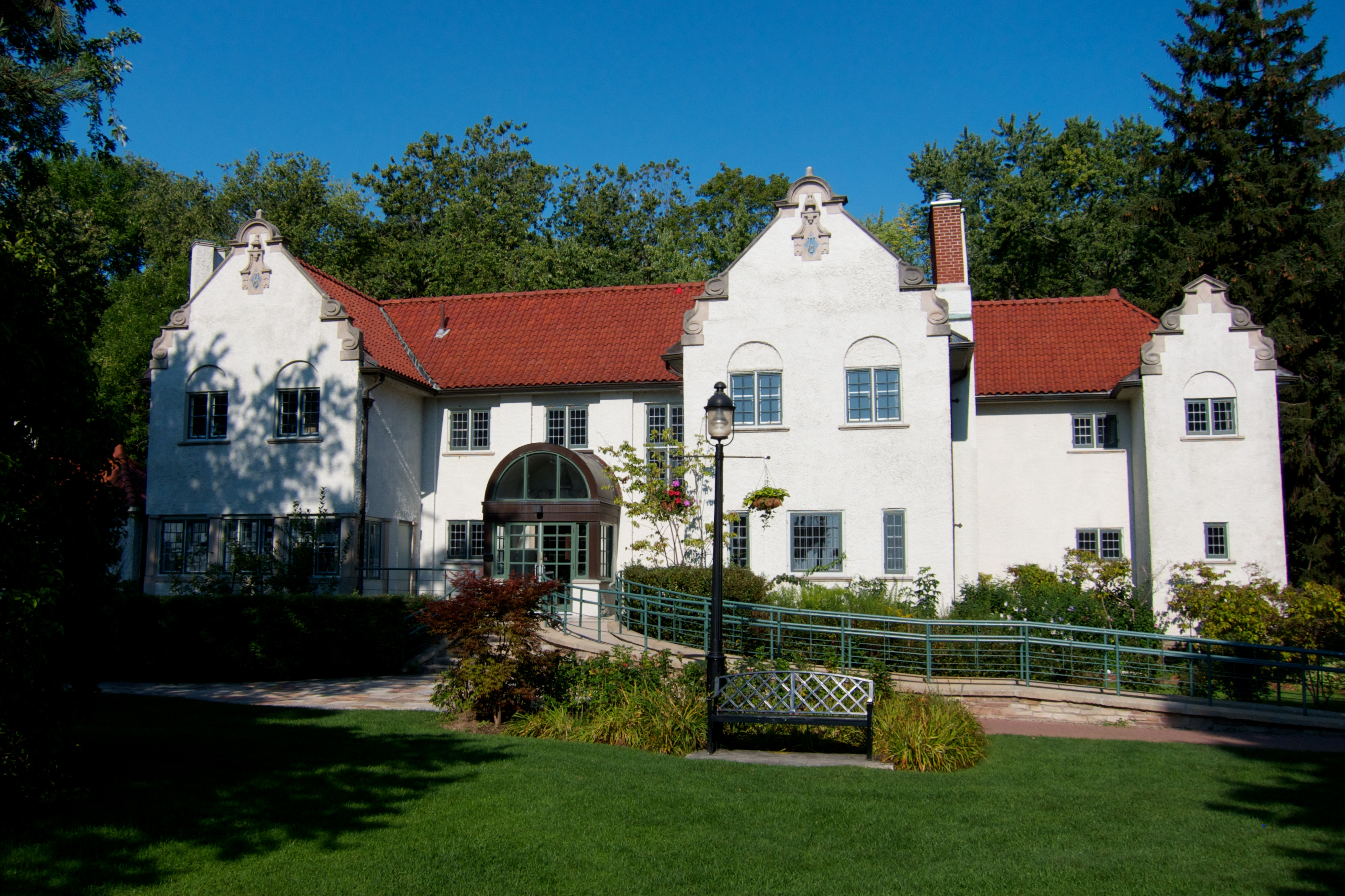 Adamson Estate on the shores of Lake Ontario. Mississauga, Ont.